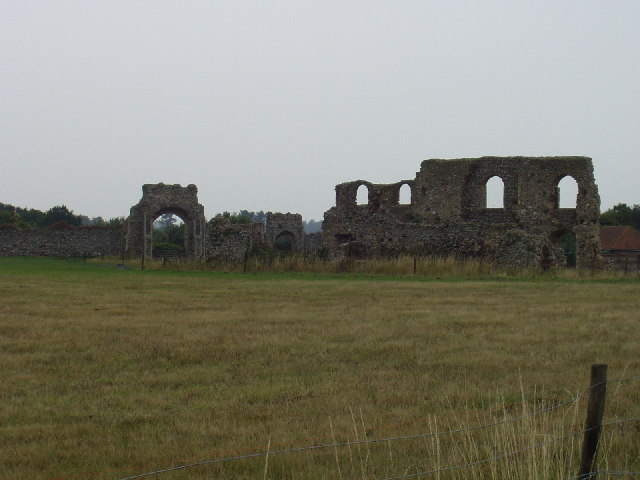 Remains of Franciscan Monastery, Dunwich.